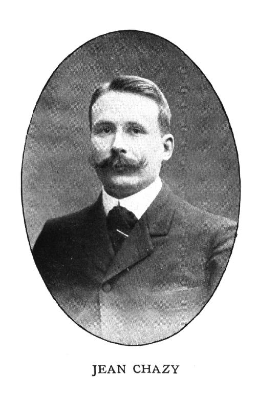 Portrait of jean Chazy, French mathematician